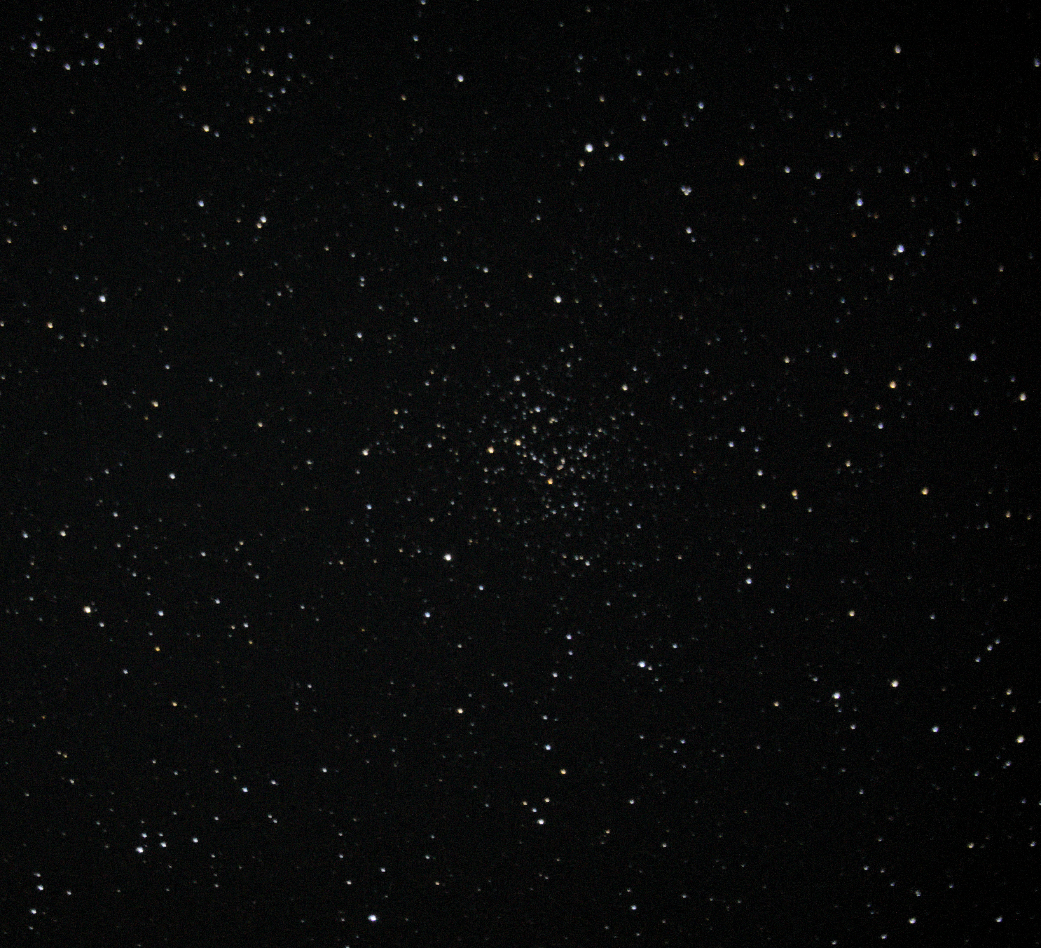 Open cluster NGC 2194, photographed through a Celestron C 9 1/4 Schmidt-Cassegrain.